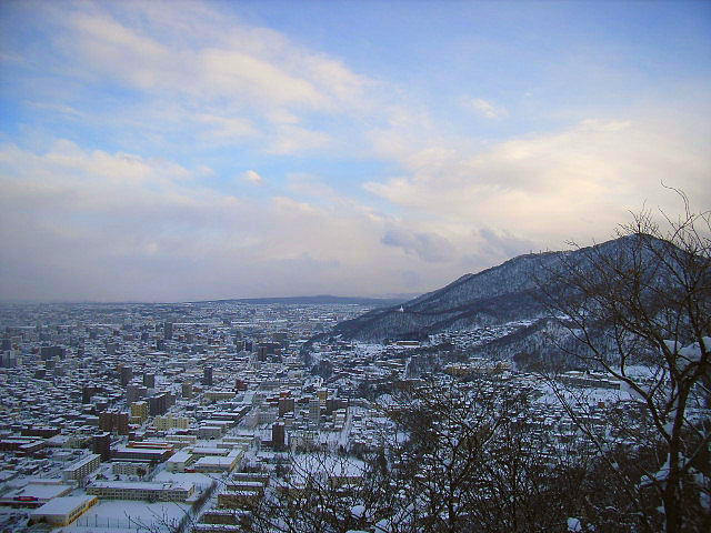 Mount Moiwa in Sapporo, Hokkaido, Japan. Southward from the top of Mount Maru (Maruyama).